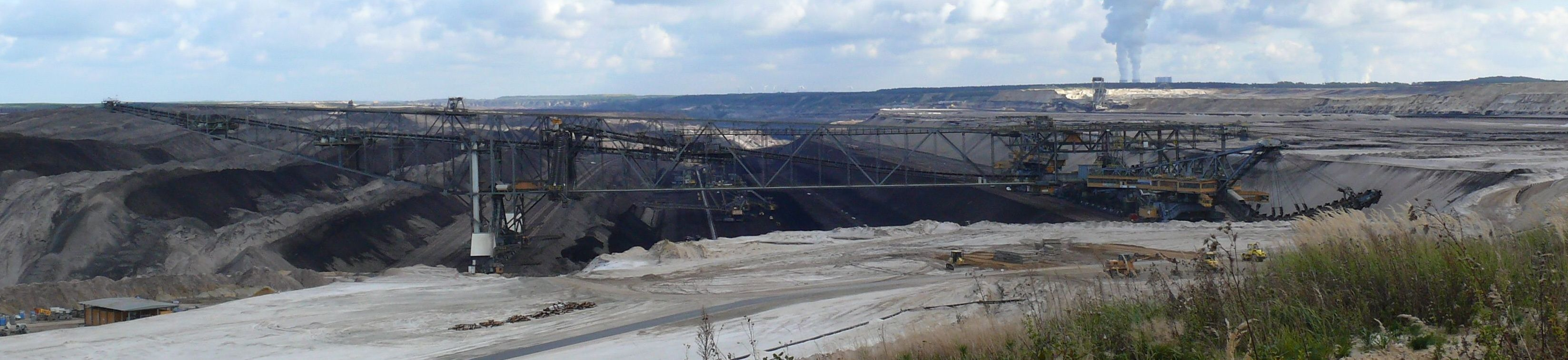 Overburden Conveyor Bridge of type F60 in the open cast mining Welzow-Süd, Lusatia, Germany.